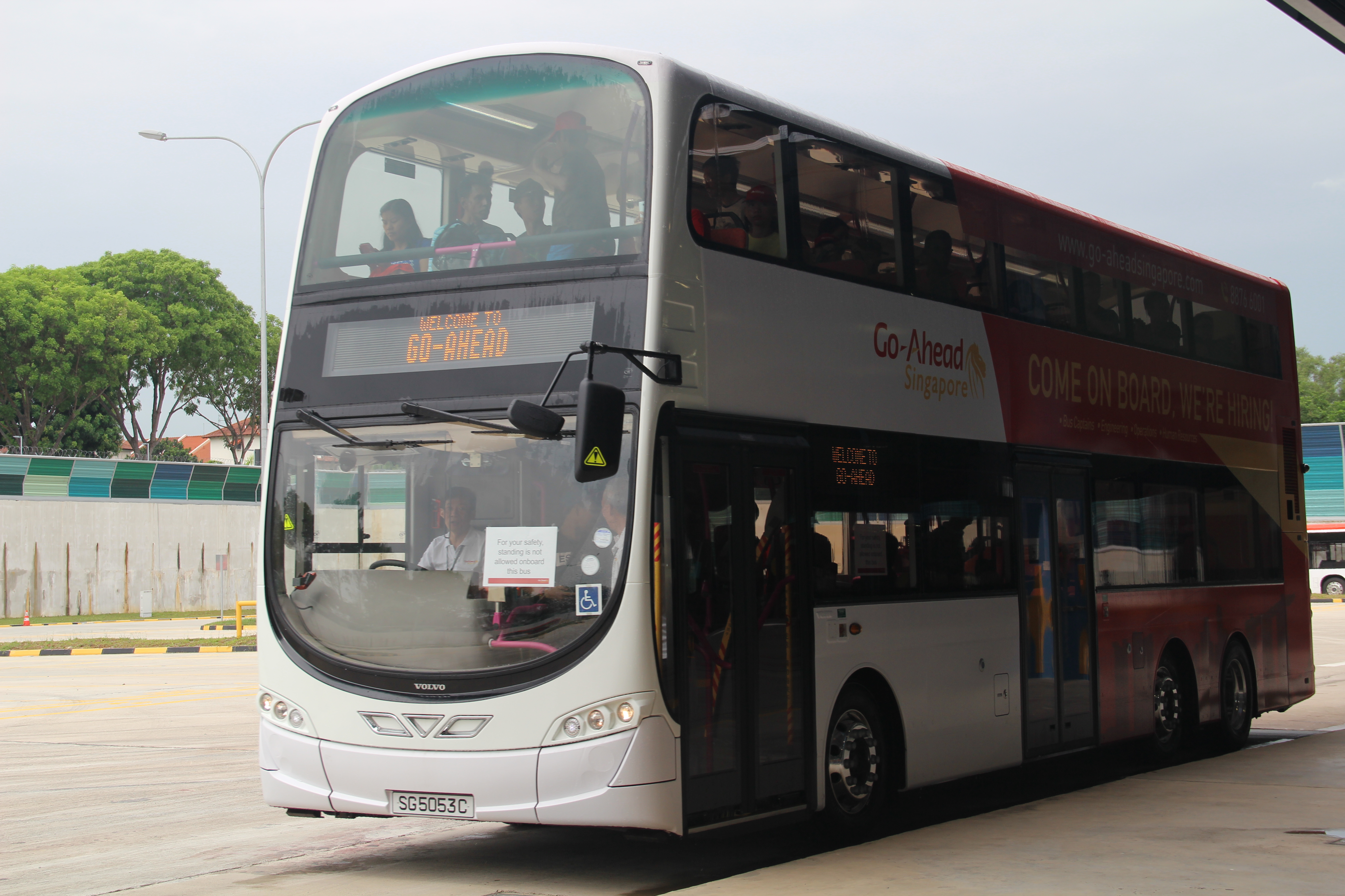 A Go-Ahead Volvo B9TL at the Loyang Bus Carnival, having returned from the bus wash experience